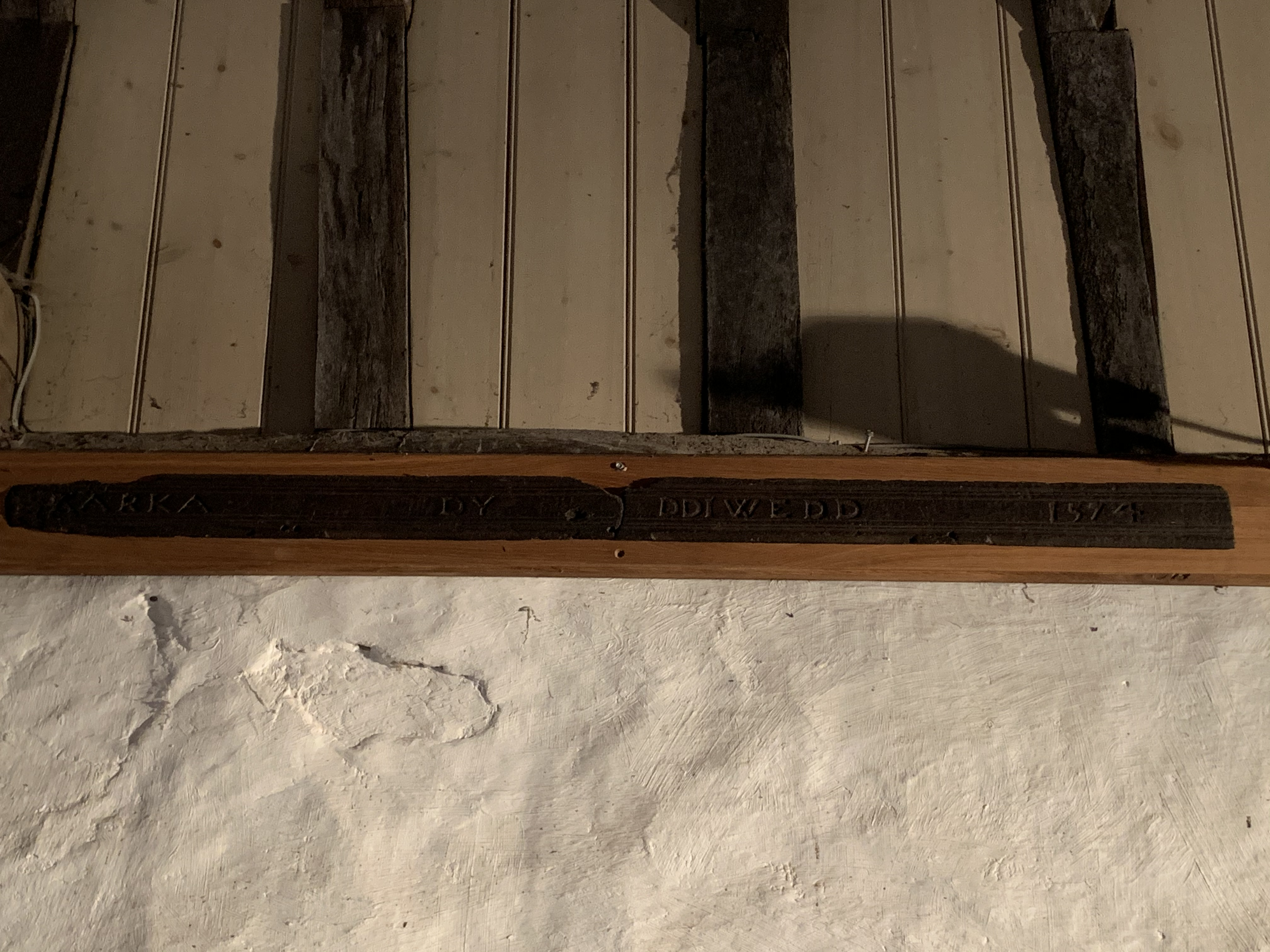 Plaque in Welsh in St Margaret's Church, Herefordshire. Courtesy of Dr Rhobert Lewis, Brecon.